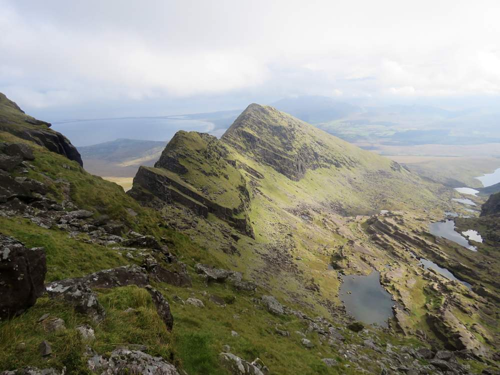 Looking into the deep corrie on Brandon's east face from which a chain of Paternoster lakes, starting at Locha Chom an Chnoic, descend into Lough Cruite; Faha Ridge (near) and Benagh mountain (far) are in green on the left.